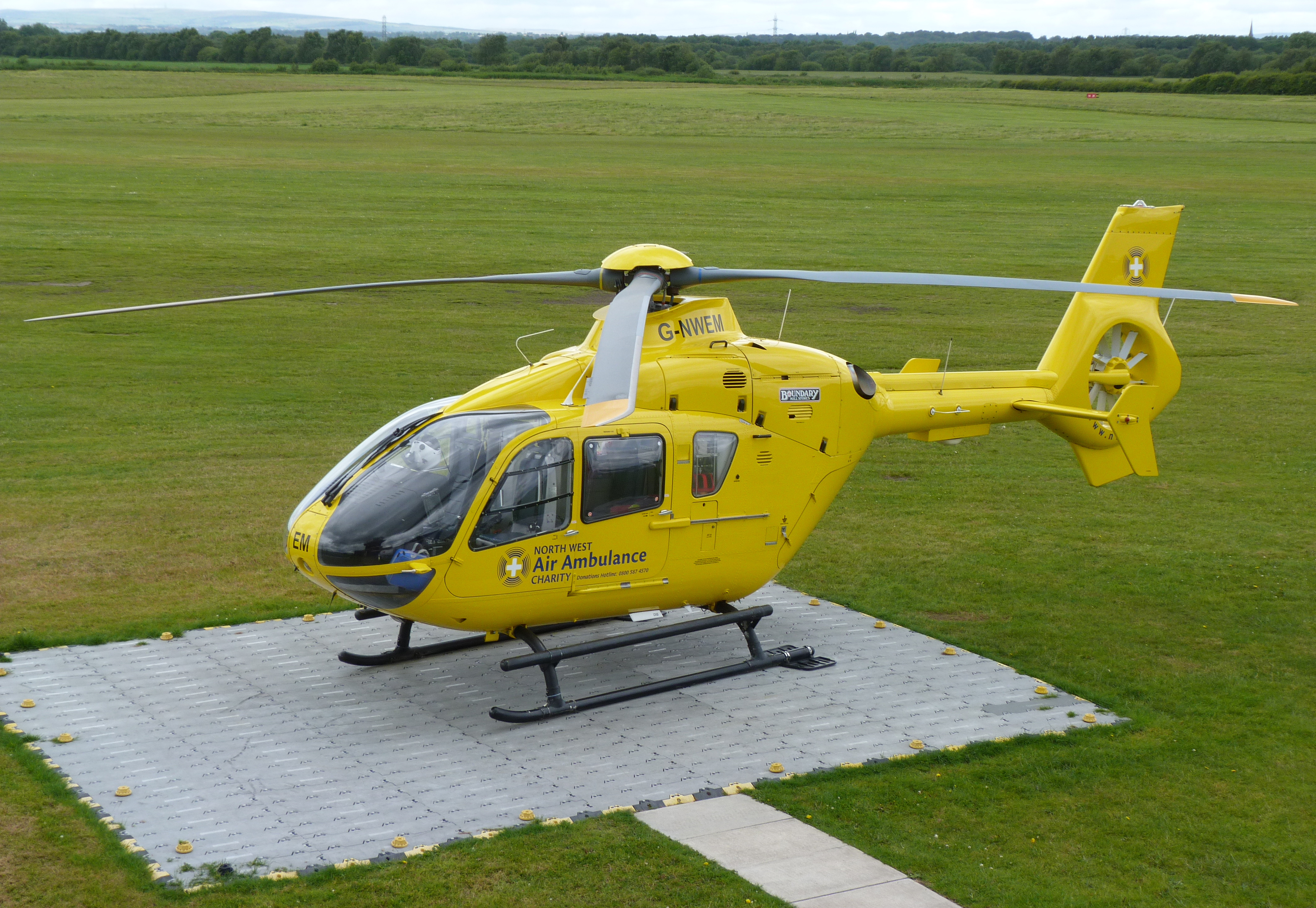 G-NWEM Eurocopter EC135T2 North West Air Ambulance